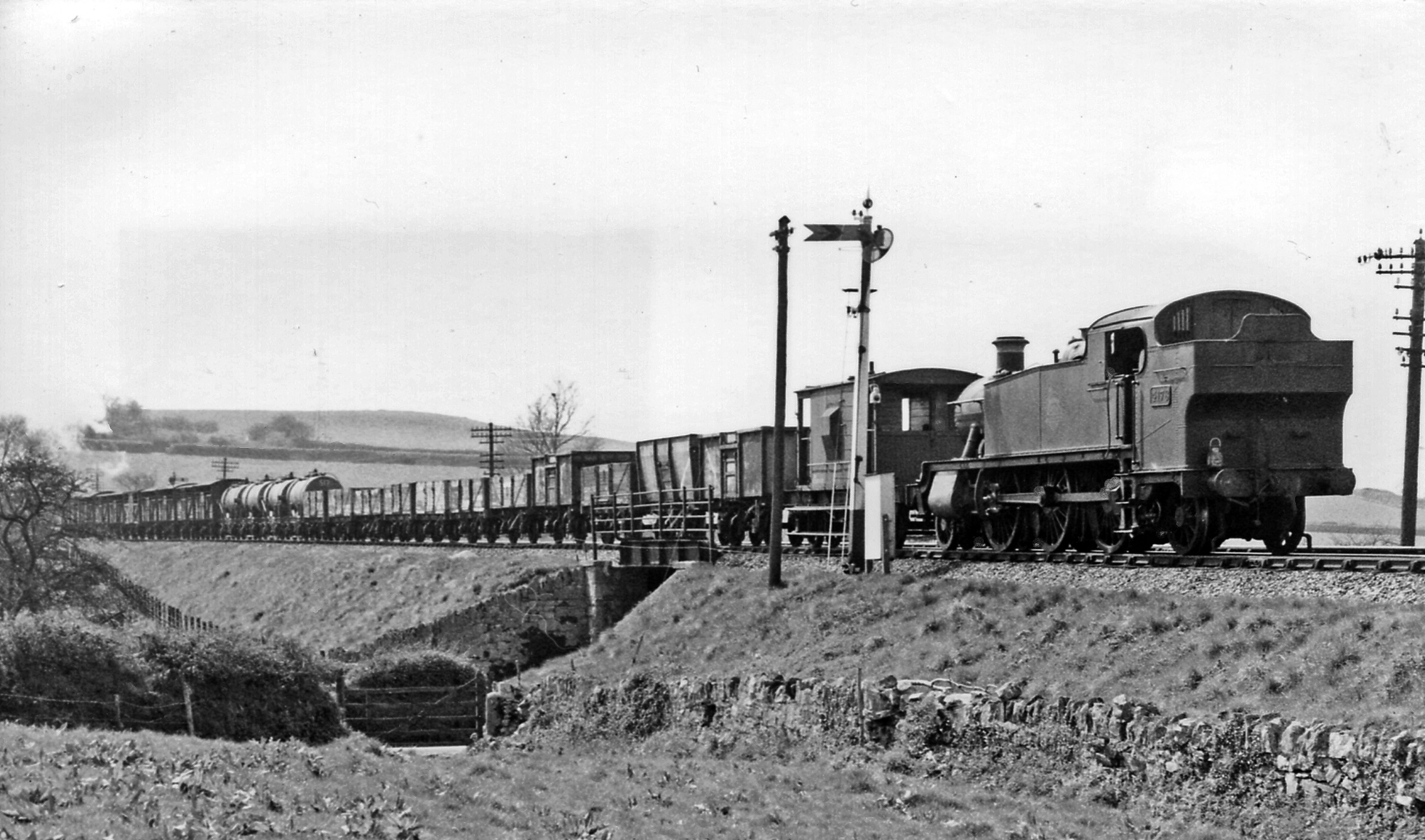 GW 2-6-2T banking a Down freight to Dainton Summit. View westward, towards Dainton Tunnel and Plymouth: ex-GW South Devon main line. The banker is '5101' 2-6-2T No. 4176 (built 11/49) and has helped the train up from Newton Abbot. (See also SX8566 : Steam and Diesel combination on Up 'Cornish Riviera Express' at Dainton Summit).(The Distant signal may well be one 'fixed' at Caution).